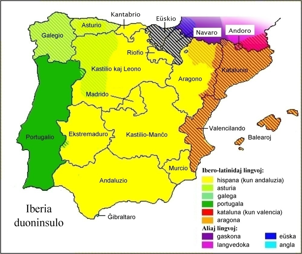 languages on the Iberian Peninsula - map labelled in Esperanto